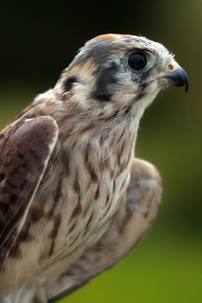 American Kestrel (Falco sparverius), photographed in Manitoba, Canada